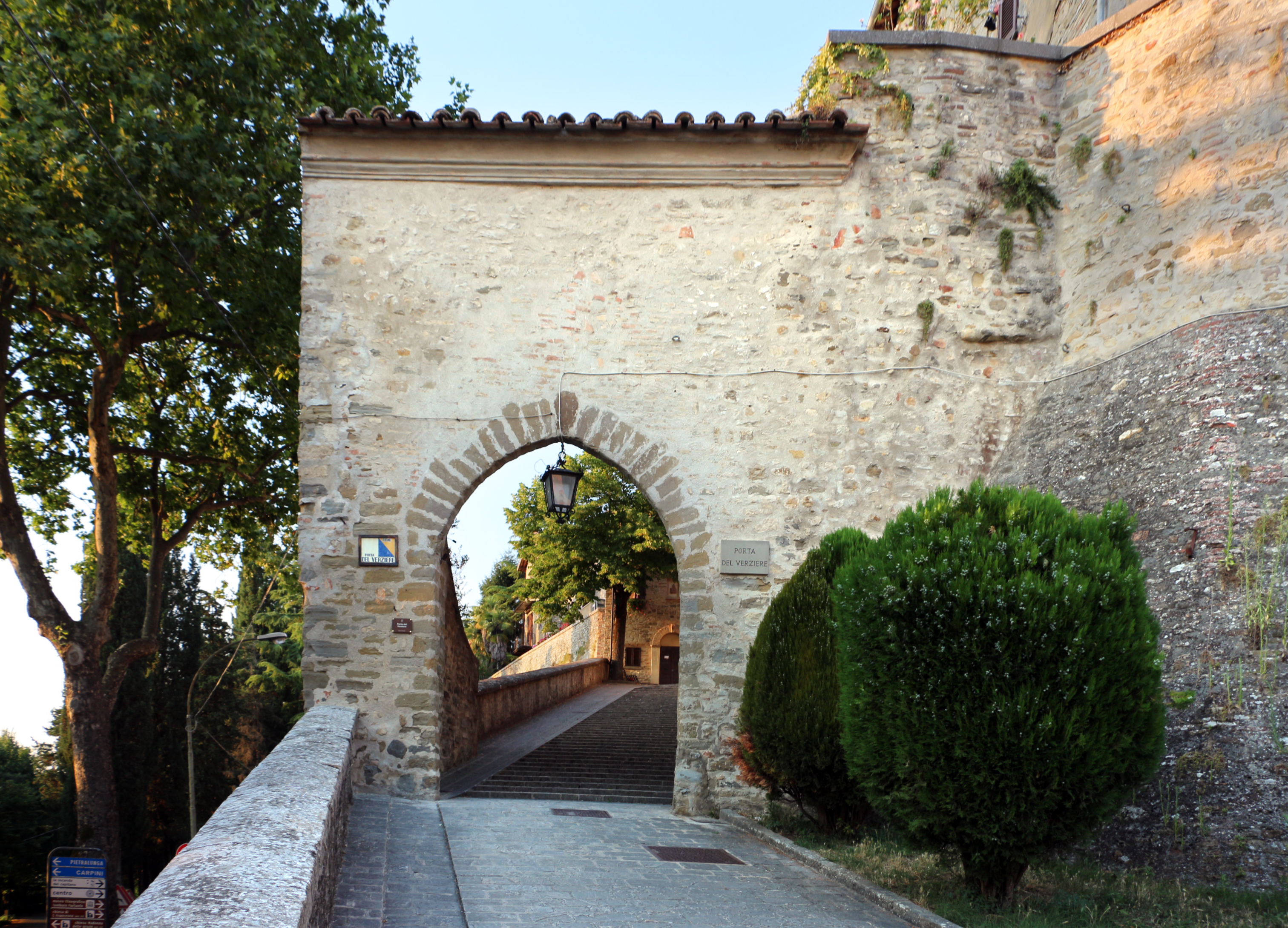 Montone